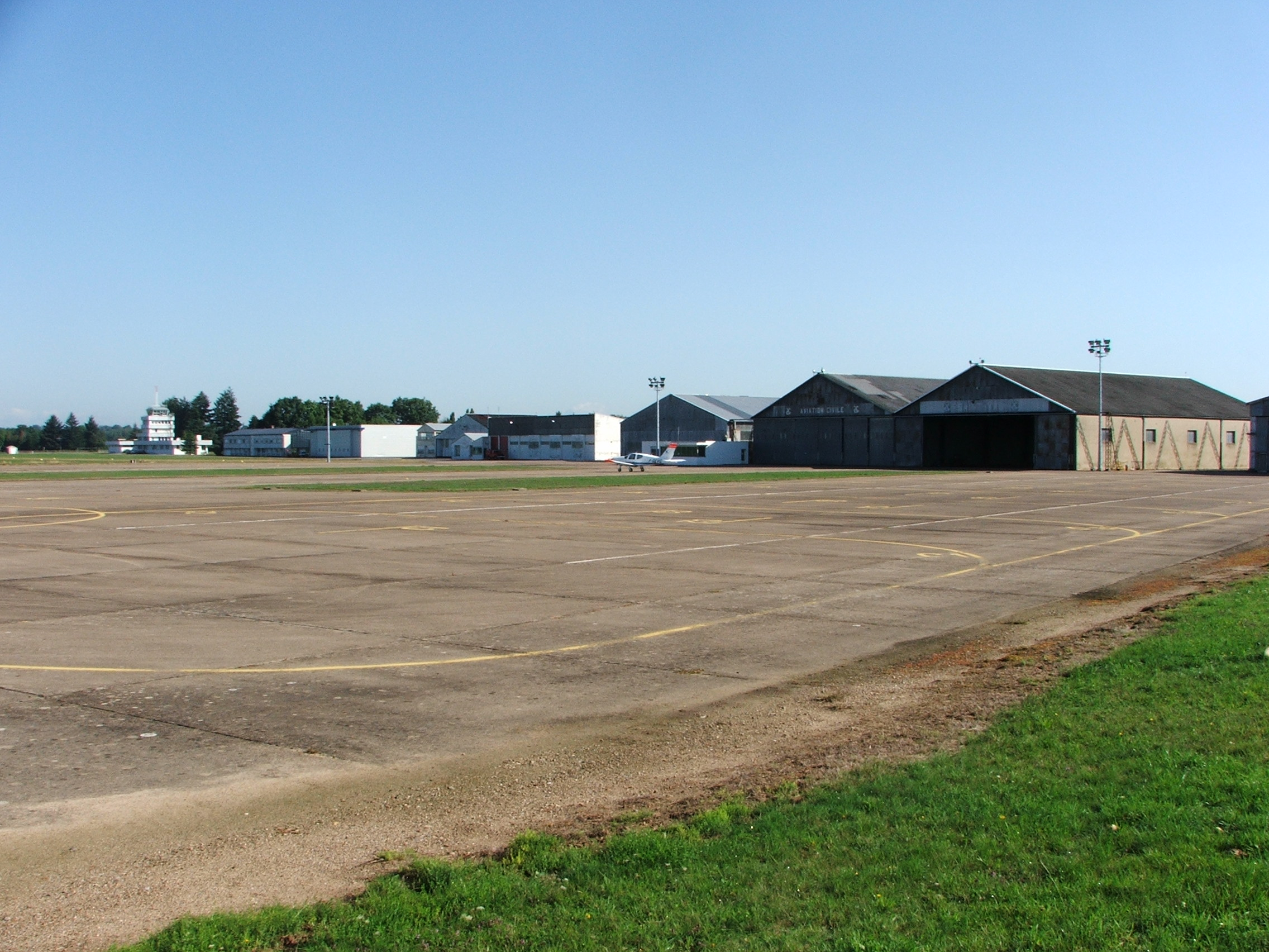 Overview of Saint-Yan airport - France (LFLN/SYT)